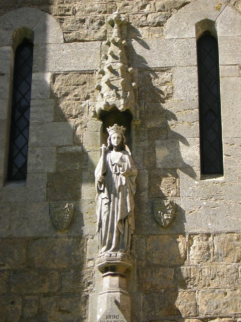 Eleanor of Castile. Eleanor of Castile, queen consort of King Edward I died in Harby in 1290. This statue was erected on the new church